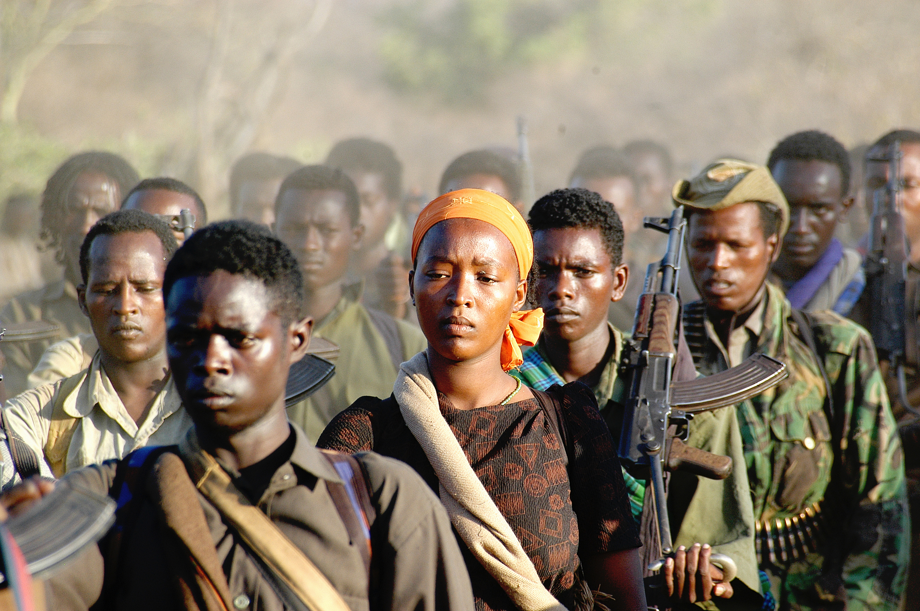 A full rebel OLF unit is retreating into Kenya after weeks of fighting with government troops in central Kenya. SOUTH OF ETHIOPIAN BORDER, CENTRAL NORTHERN KENYA - FEBRUARY 3: OLF rebels are regrouping in Northern Kenya to safety, February 3rd, 2006, in Kenya. The OLF is orgaznied militarely as a coventional army, with its platoon, batallion, regiments. (Photo by Jonathan Alpeyrie/Getty images).